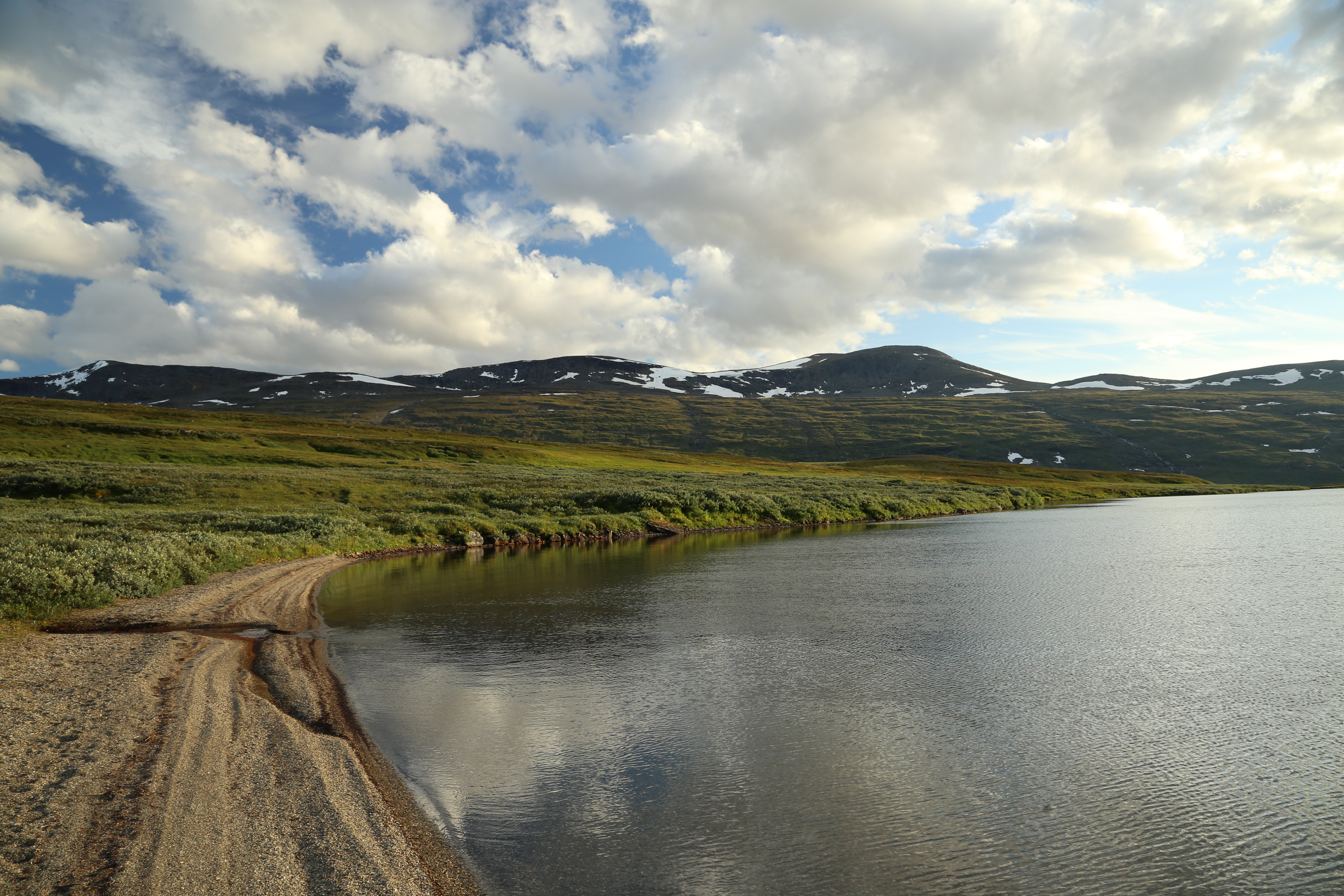 Padjelantaleden, Nordkalottleden and Áhkká massif in Sweden, in July or August 2014. This photograph is part of a series, which can be found in full in Category:Padjelantaleden and Nordkalottleden Trip in 2014. Some files have GPS coordinates associated, for others, the following overview might be helpful: Click here for approximate location at each date 25.7. Kvikkjokk and Njunjes 26.7. Njunjes and Tarrekaise 27.7. Tarrekaise and Sammerlappa, before the entrance to Padjelanta National Park 28.7. Tarraluoppal 29.7. Tuattar 30.7. Staloluokta 31.7. Arasluokta 1.8. Låddejåkkå 2.8. Kutjaure (Nordkalottleden) 3.8 + 4.8. Akkajaure, Akka mountains (Nordkalottleden and Padjelantaleden)